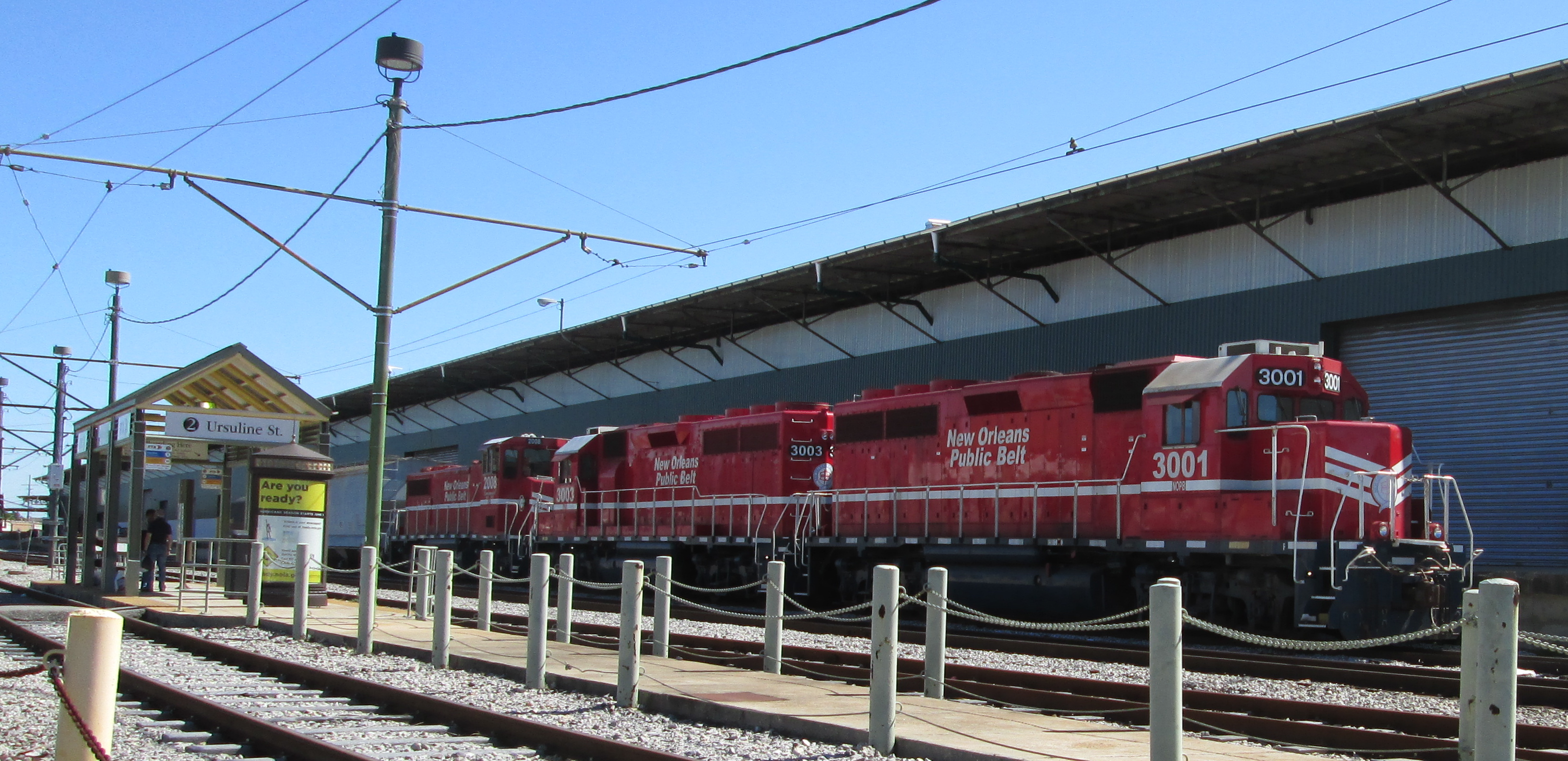 New Orleans Public Belt locomotive by the Governor Nichols Street Wharf, French Quarter riverfront, New Orleans.